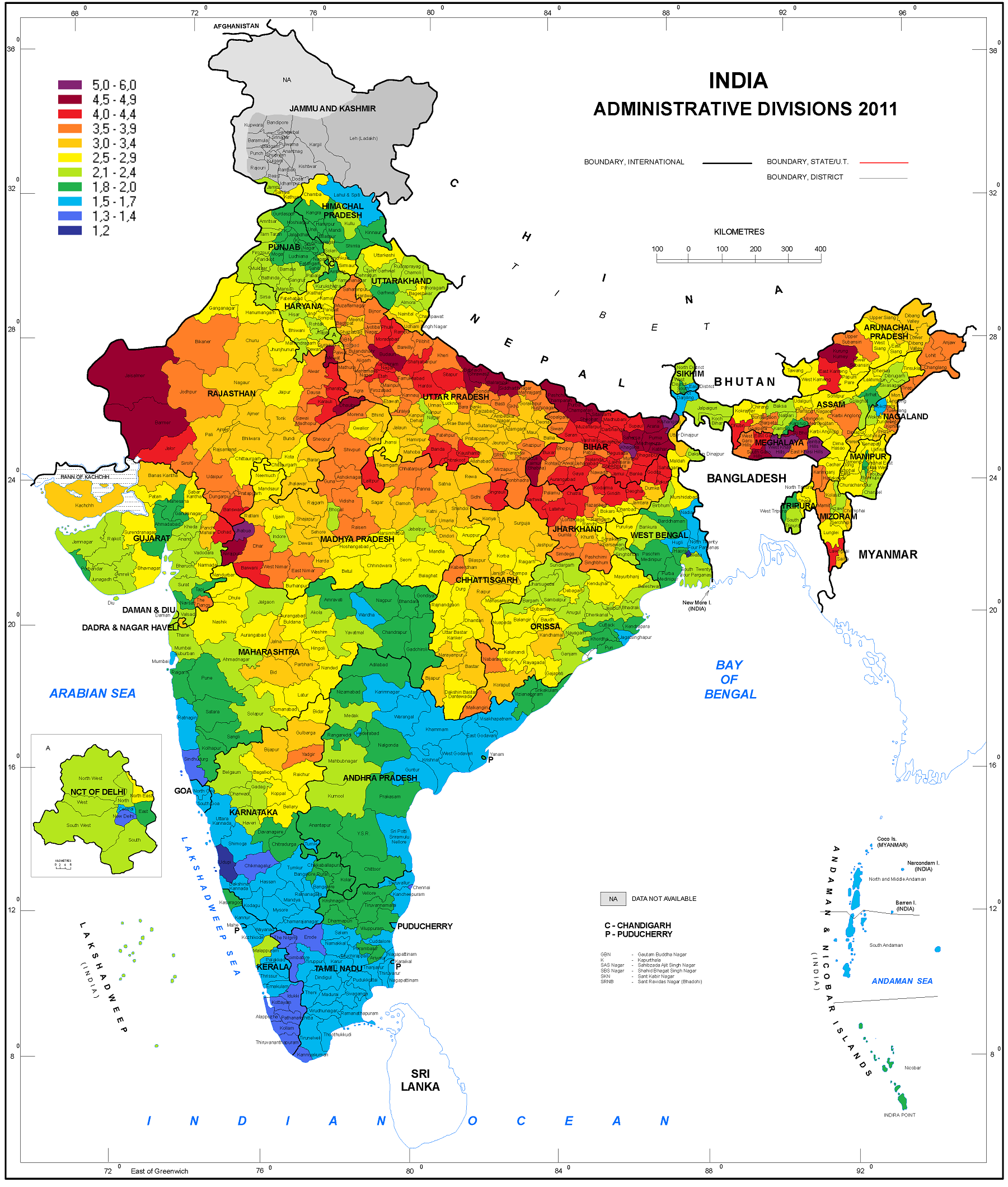 Maps TFR in India by districts